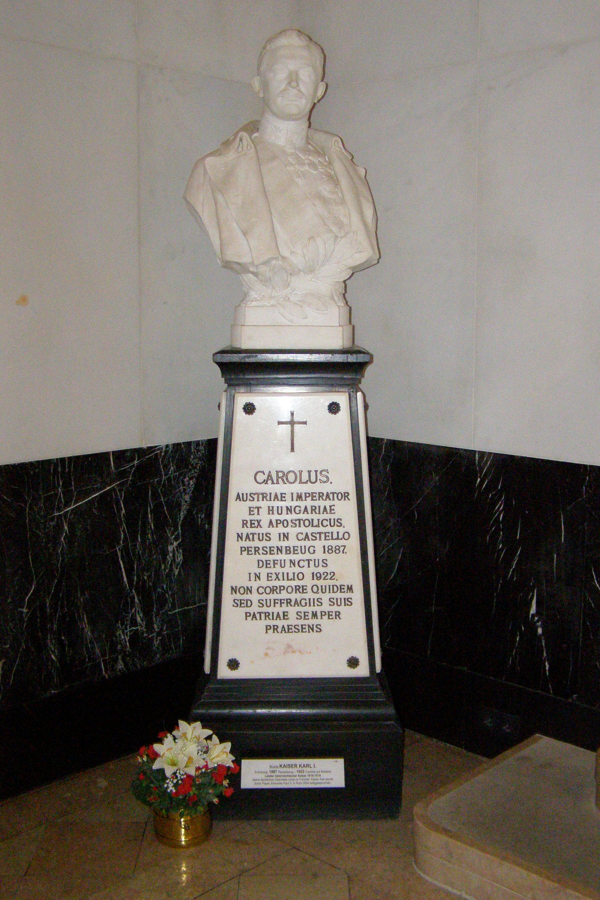 Statue Charles I of Austria in Imperial Crypt